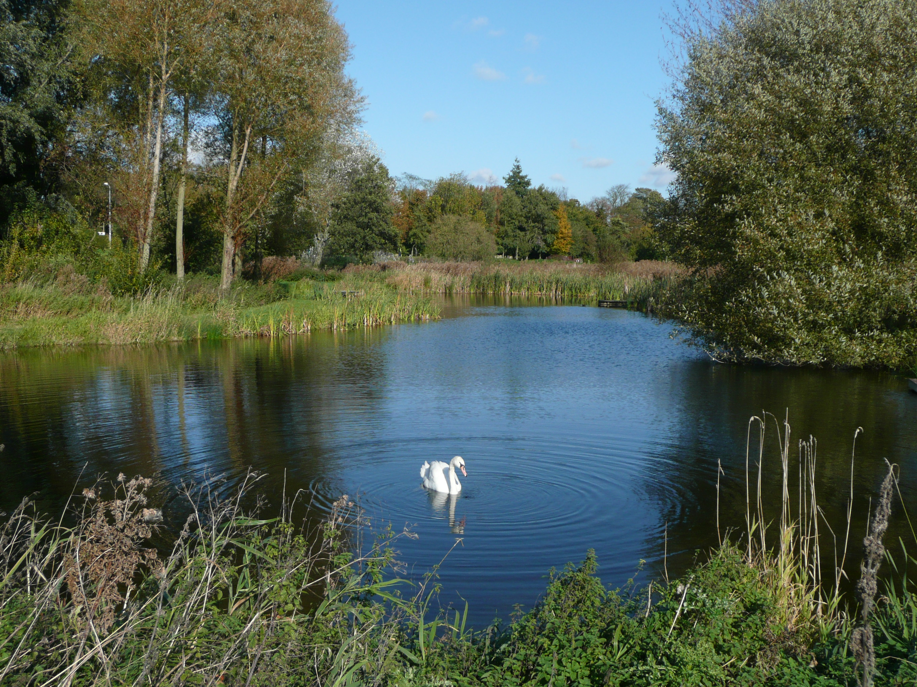 "Lollycocks Pond. The pond is part of the Lollycocks nature reserve adjacent to the river Slea." Located in Lollycocks Field Local Nature Reserve.